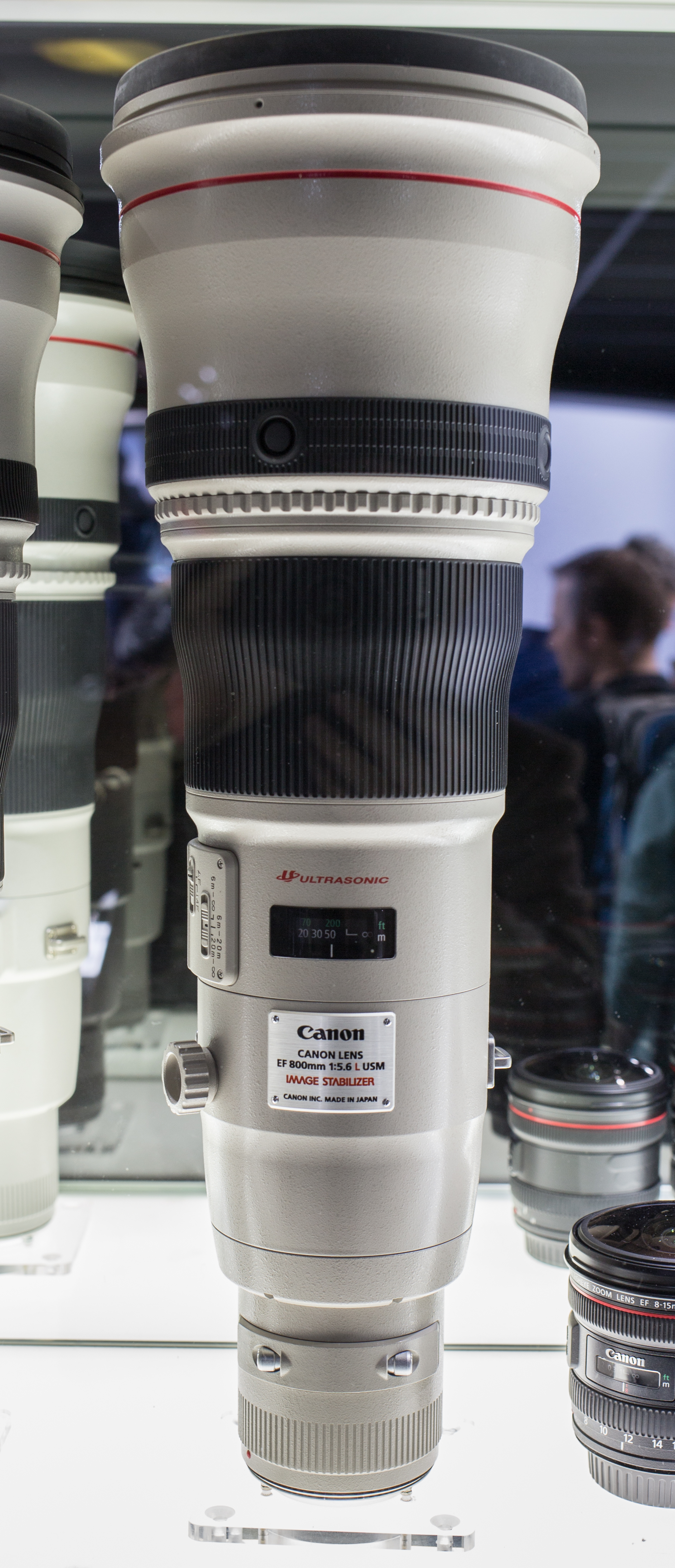 Image of the Canon EF 800mm f/5.6L IS USM lens